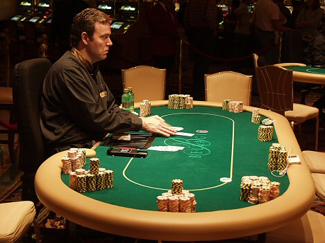 Poker Table at the 2004 World Poker Tour 5 Diamond Bellagio